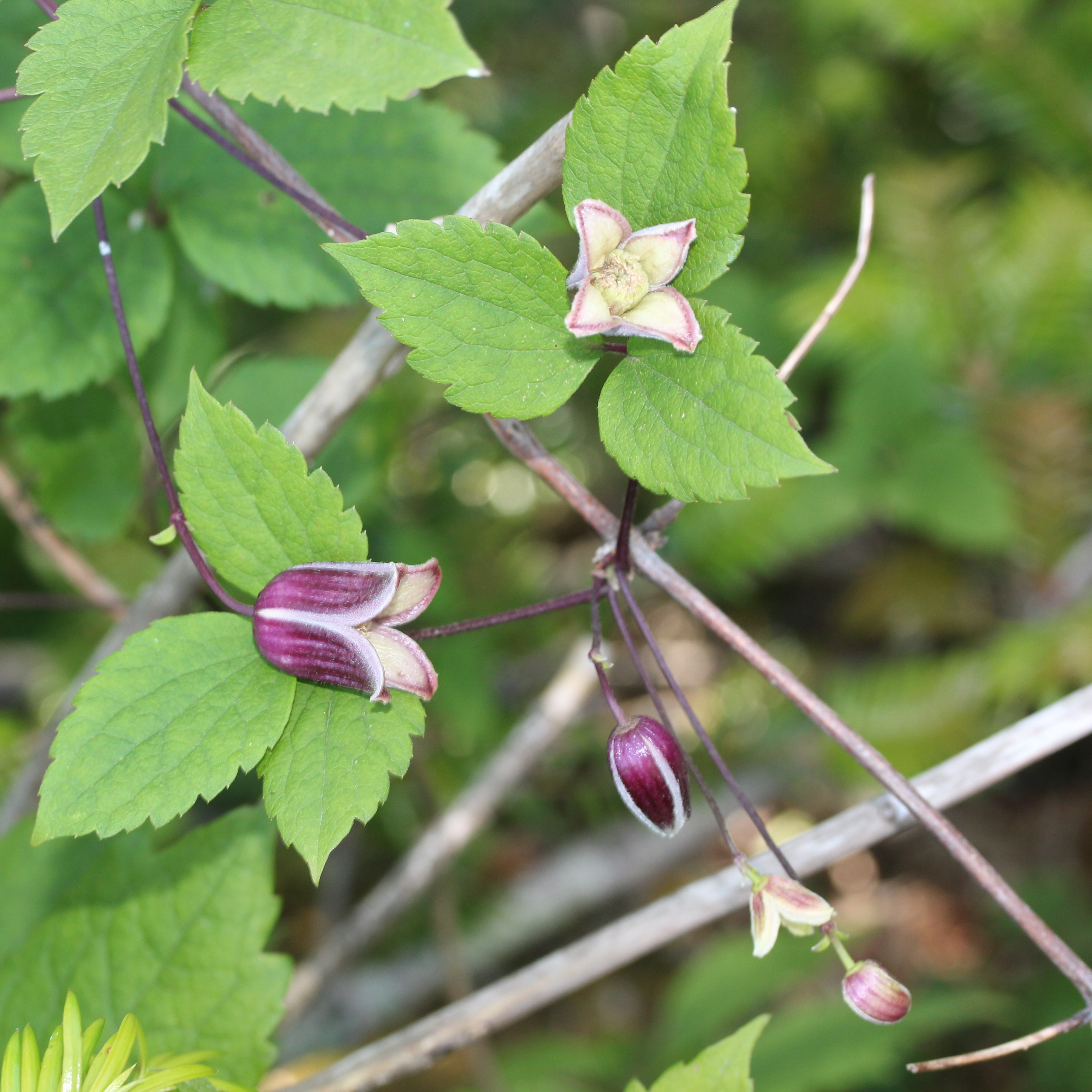 Clematis japonica in Ibigawa, Gifu pref., Japan.